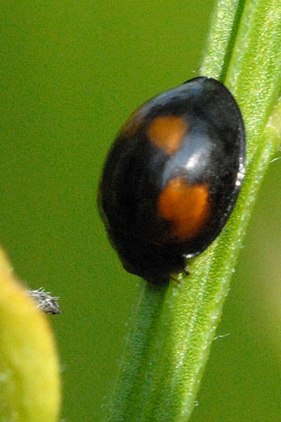 Picture taken in Commanster, Belgian High Ardennes . Species: Brumus quadripustulatus